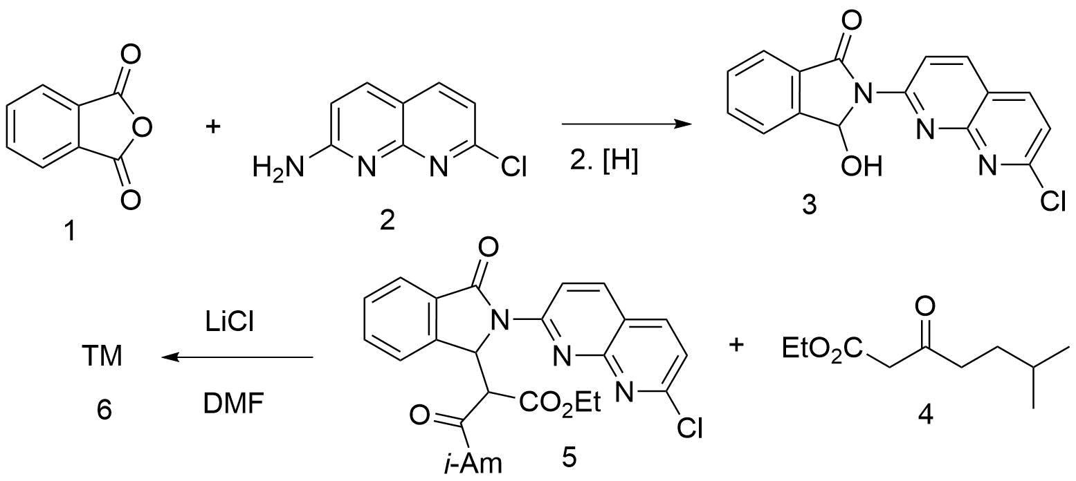 US4960779